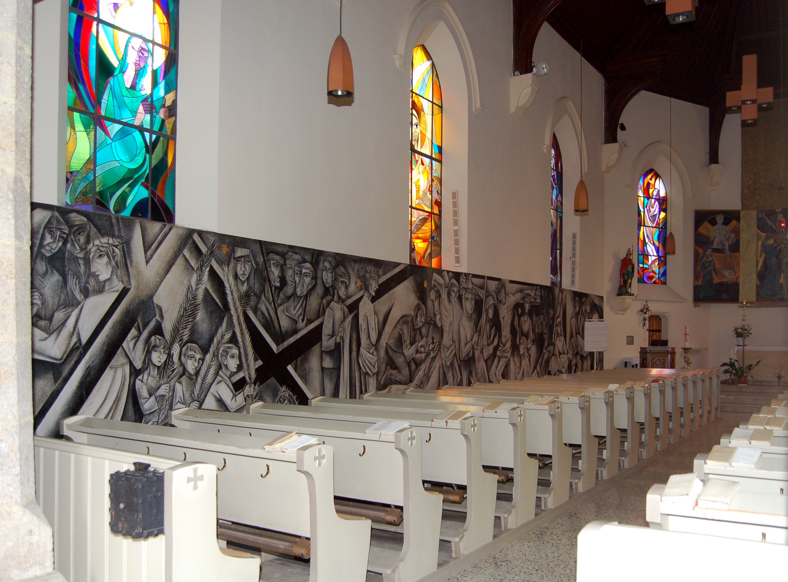 The interior of the Marienkirche in Berndorf, Lower Austria was completely renewed in 1966/67 by Franz Drapela: the double sided and full length stations of the cross, the high altar, the tabernacle, and the windows.